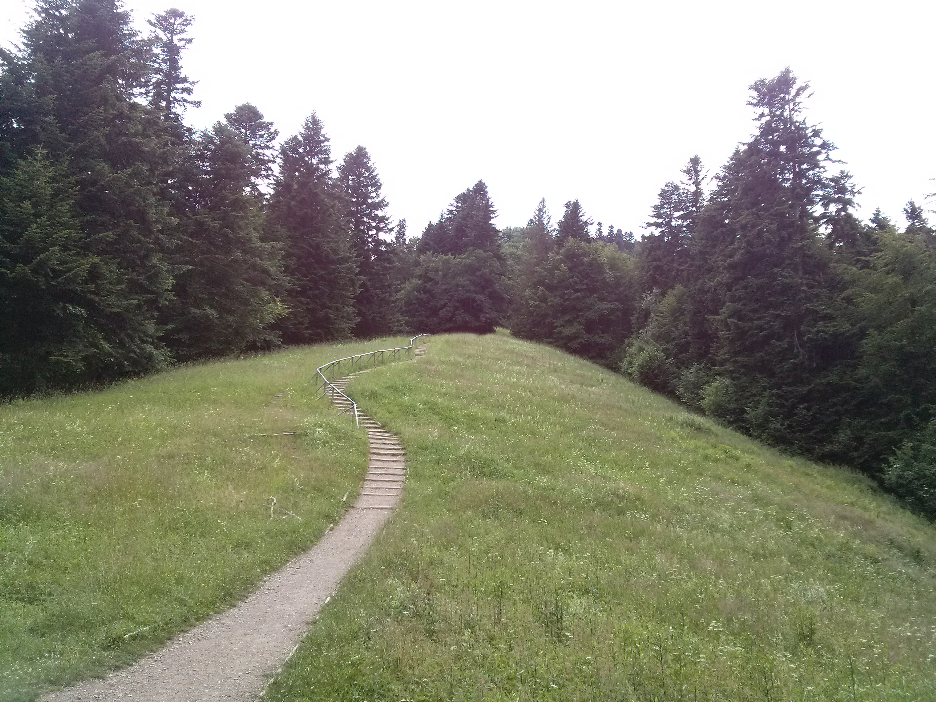 Polana Kosarzyska - widok na szlak na Trzy Korony (czyli na południe)